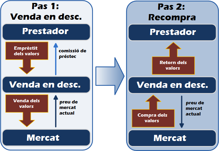 Diagram of short selling in finance.